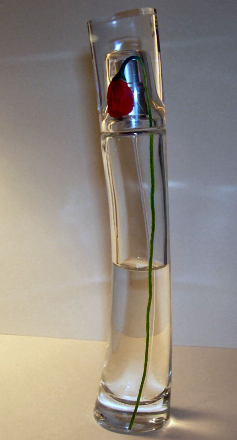 The photo is of parfume "Kenzo" by the fashion desinger Kenzo Takada. The brand Kenzo is owned by the French luxury goods company LVMH.